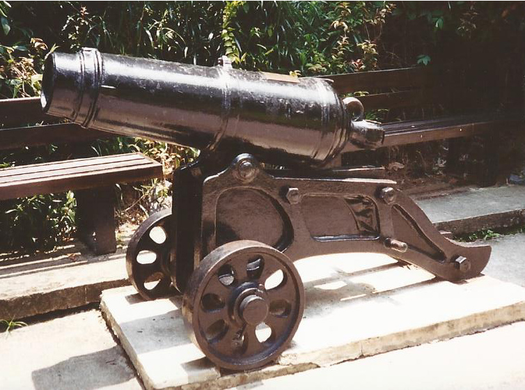 Carronade UK